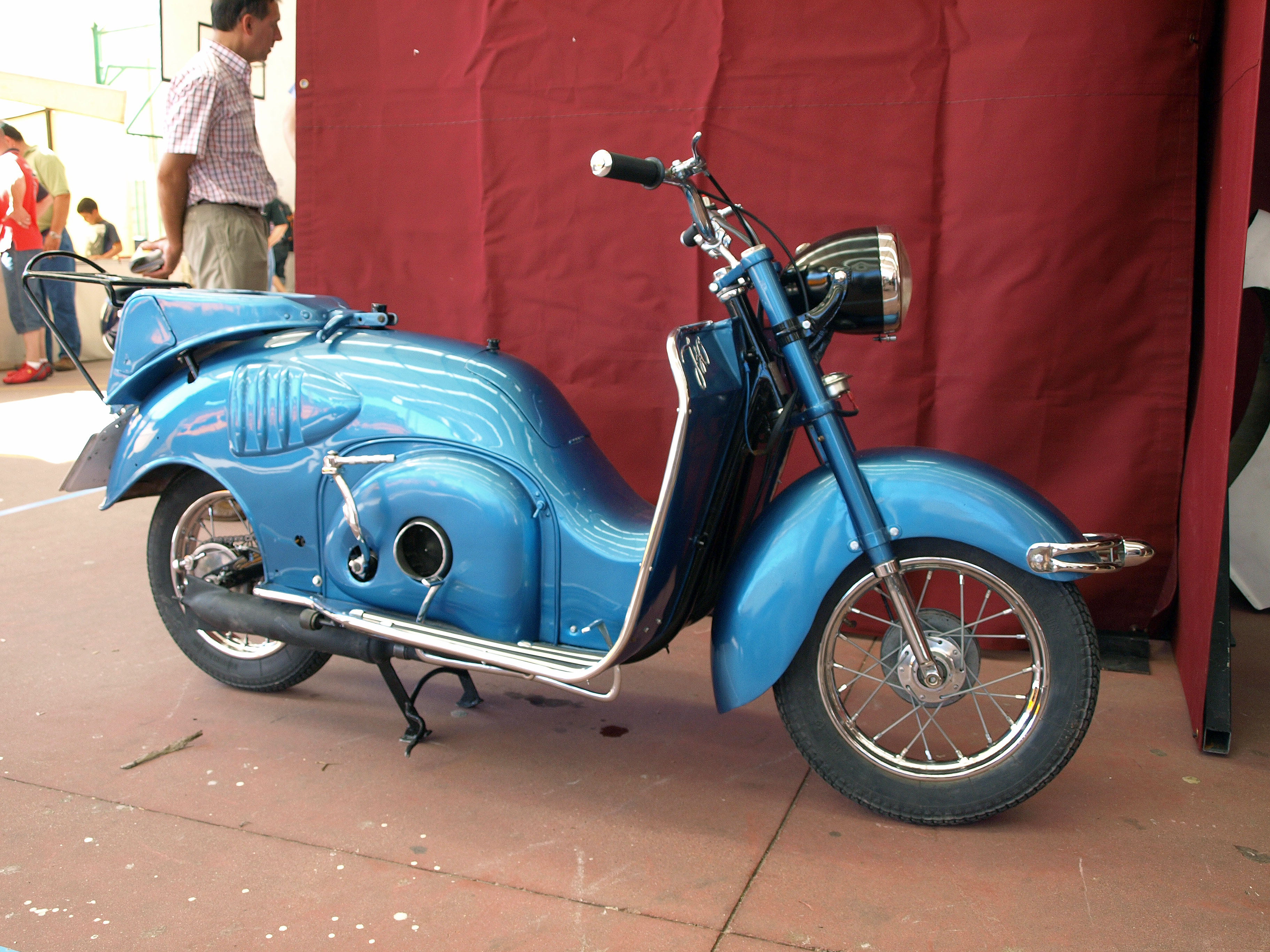 An Iso motorcycle, in exposition at Feria del Motor, La Bañeza (Spain, 2008)